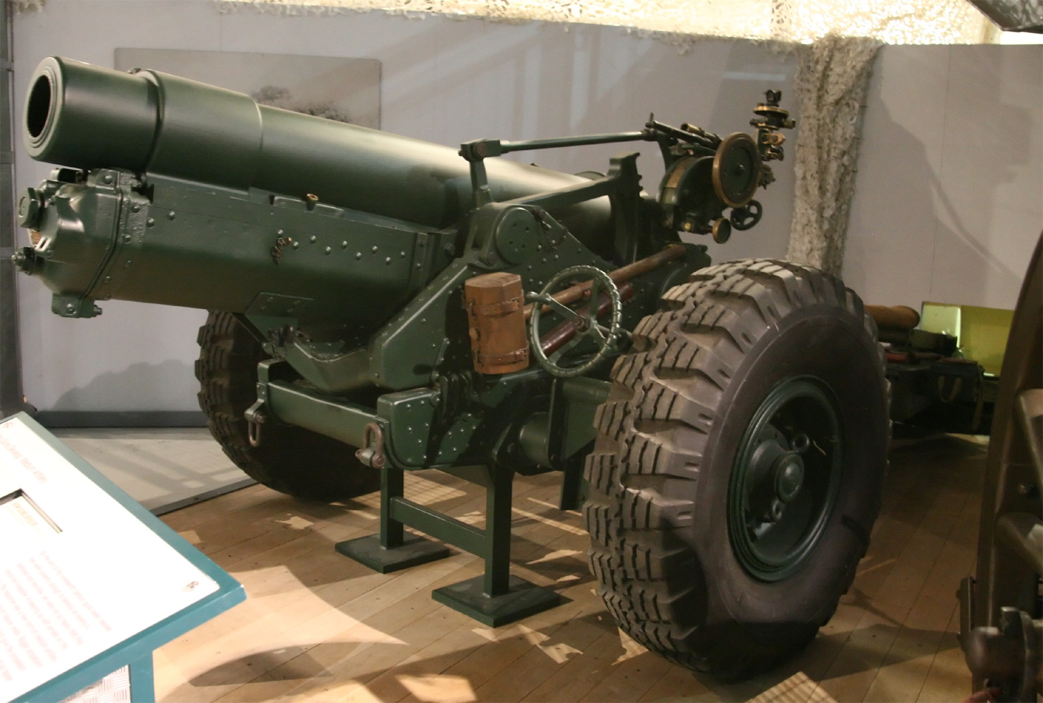 A British 6 inch 26cwt howitzer at Firepower - The Royal Artillery Museum in London. NOTE : moved from en wikipedia.